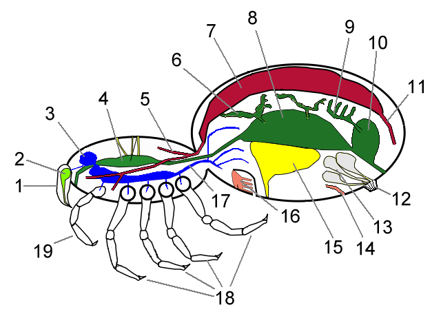 Spider main organs, labelled Ref: Ruppert, E.E., Fox, R.S., and Barnes, R.D. (2004) Invertebrate Zoology (7th ed.), Brooks / Cole, pp. 571-584 ISBN: 0030259827.